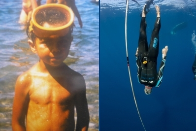 Michal Risian